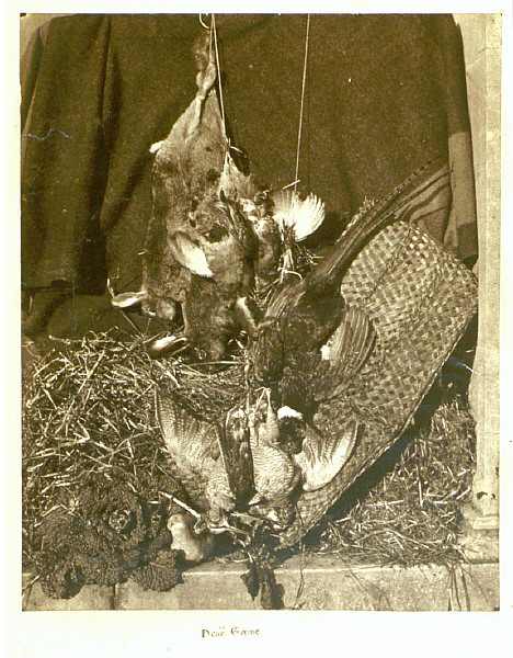 Dead Game. Albumen print, 9 9/16 x 7 11/16 in. (24.3 x 19.5 cm).